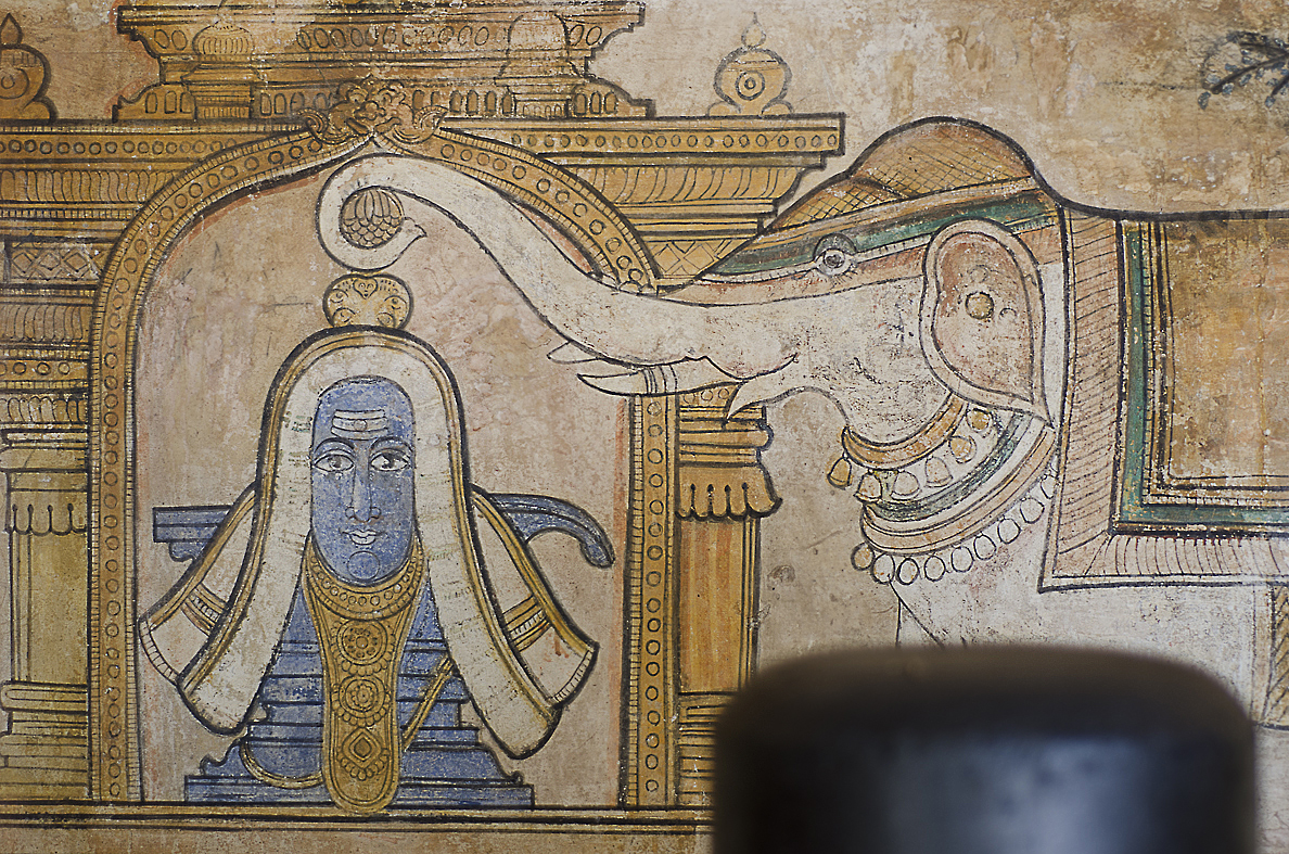 Wall paintings show various stories and folktales. Some were also added by the Marathas